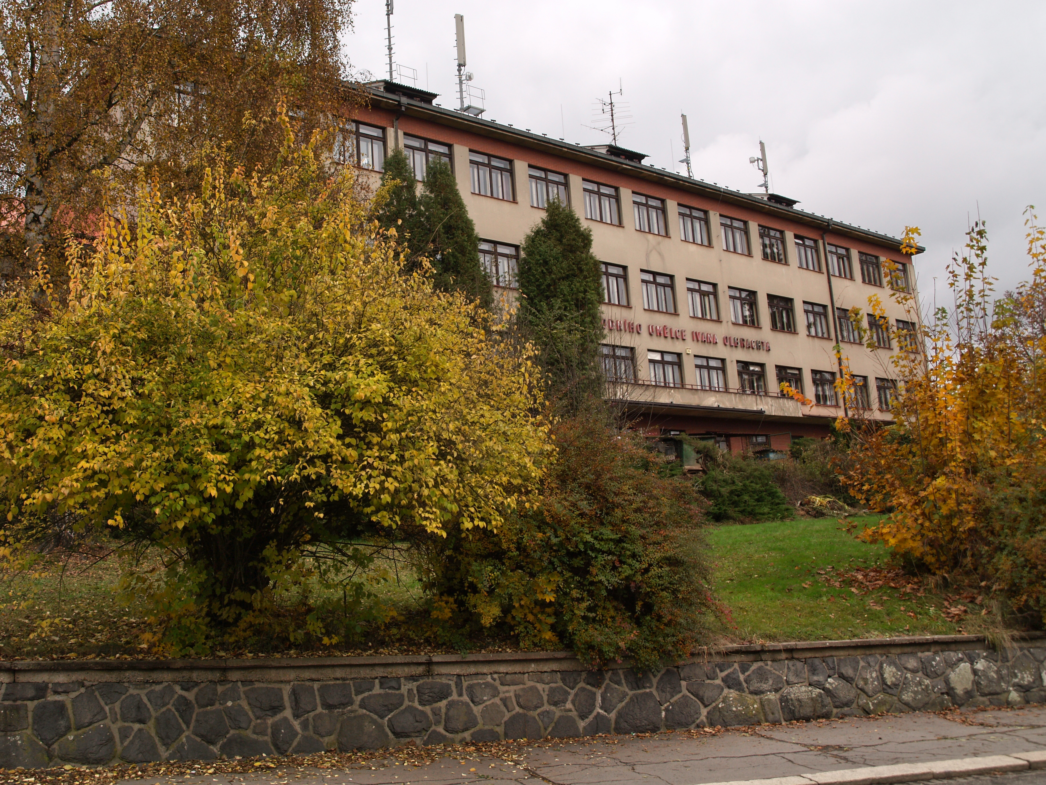 Czech town Semily—High school, named after Czech writer Ivan Olbracht, born 1882 in Semily